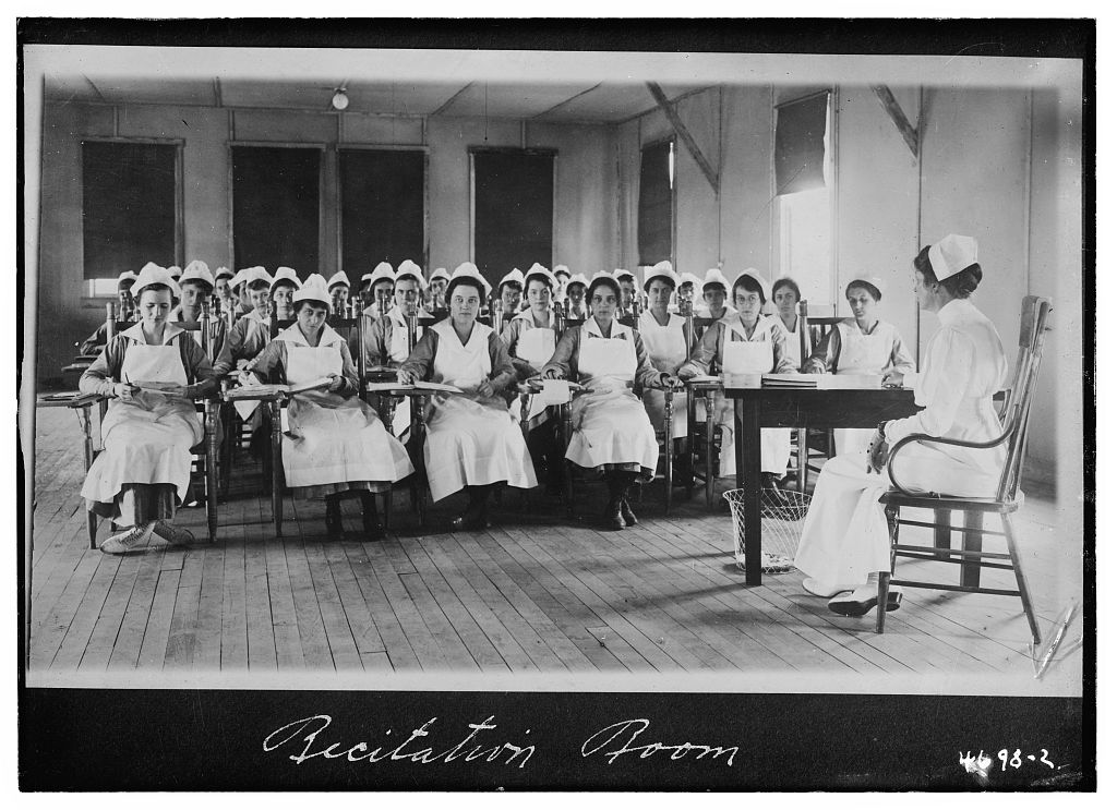 Bain News Service,, publisher. [Army School of Nursing, Camp Wadsworth, S.C.] -- recitation room [between ca. 1915 and ca. 1920] 1 negative : glass ; 5 x 7 in. or smaller. Notes: Title from data provided by the Bain News Service on the negative. Forms part of: George Grantham Bain Collection (Library of Congress). Format: Glass negatives. Repository: Library of Congress, Prints and Photographs Division, Washington, D.C. 20540 USA, General information about the Bain Collection is available at Higher resolution image is available (Persistent URL): Call Number: LC-B2- 4698-2